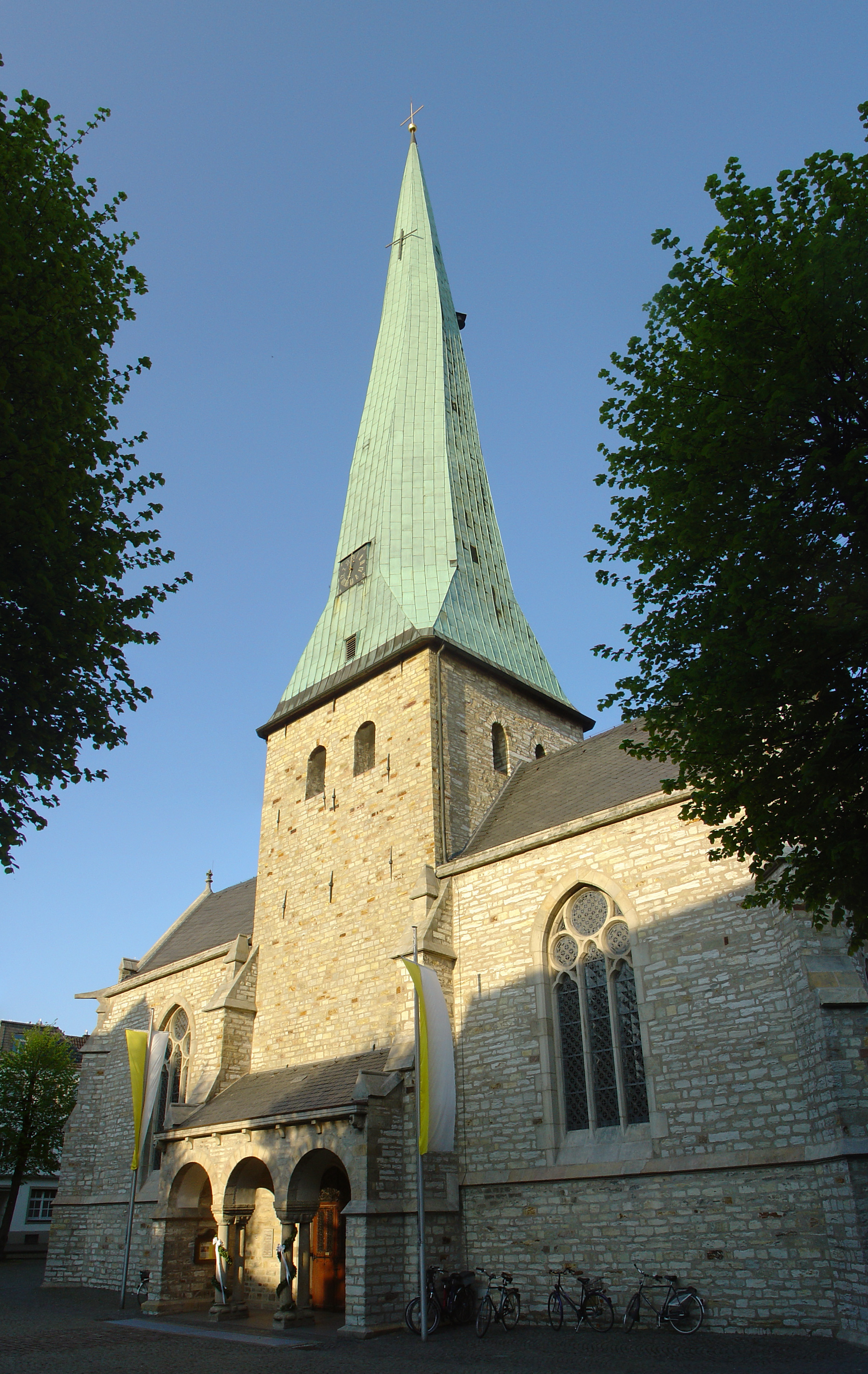 Church St. Johannes Baptist in Delbrück, District of Paderborn, North Rhine-Westphalia, Germany.